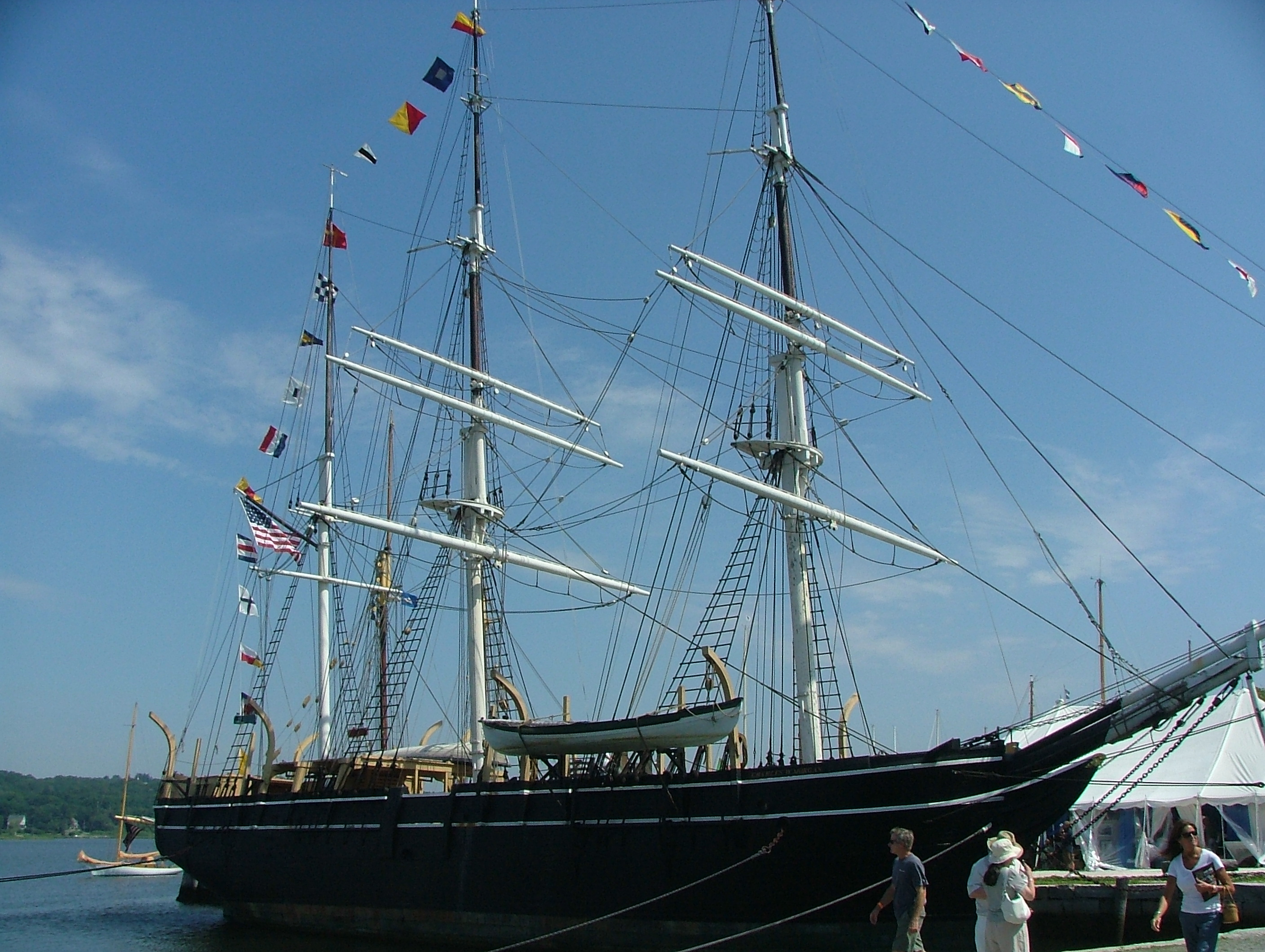 Charles W. Morgan in Mystic Seaport, Connecticut